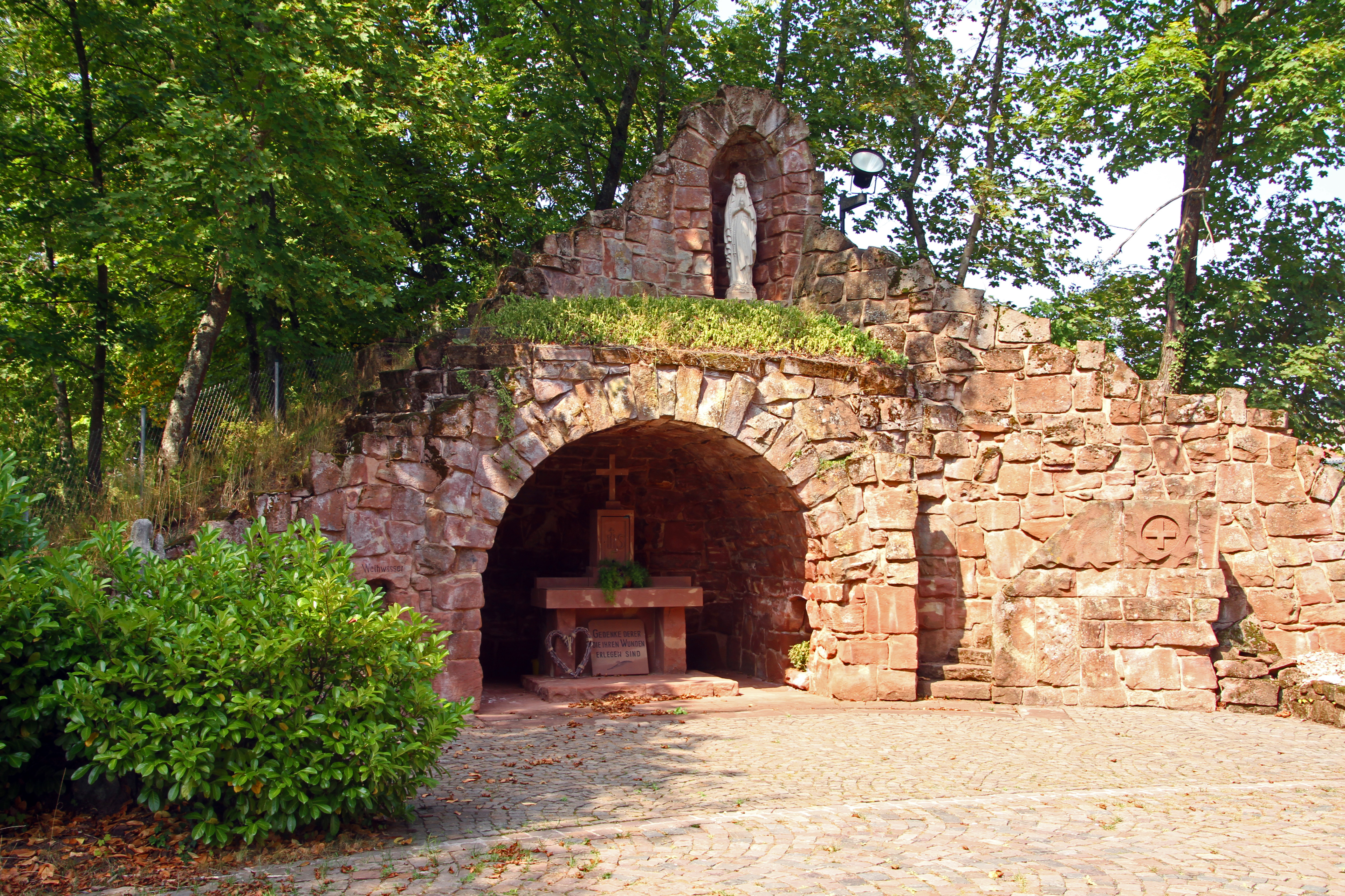 Church of Saint Lawrence in Contwig.